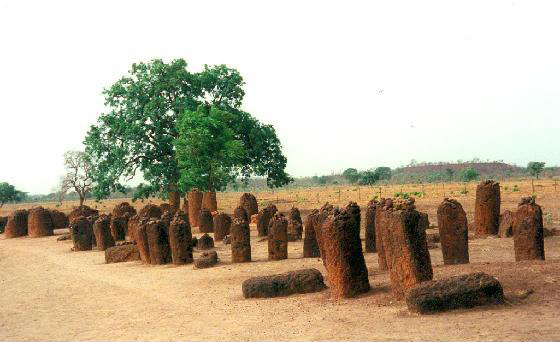 Wassu stone circles